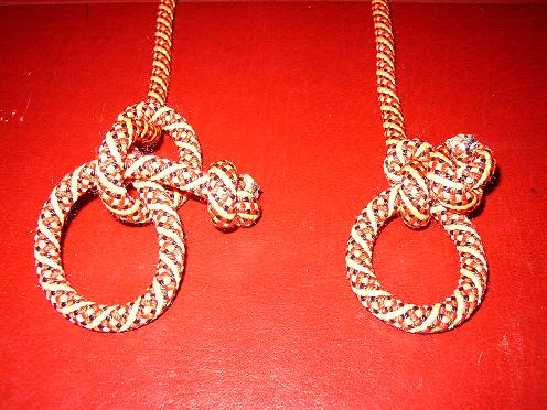 Honda knot. Photo by Ben Hodges.